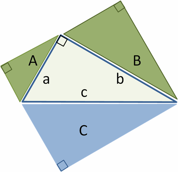 A similarity proof for Pythagoras' theorem based upon areas proportional to sides on the center triangle. Area of triangle C = sum of areas of A and B. All three right triangles are similar, so all three areas are proportional to the side bordering the center triangle. Hence, α(a2 + b2) = α c2, or dividing by α, we have Pythagoras' theorem.